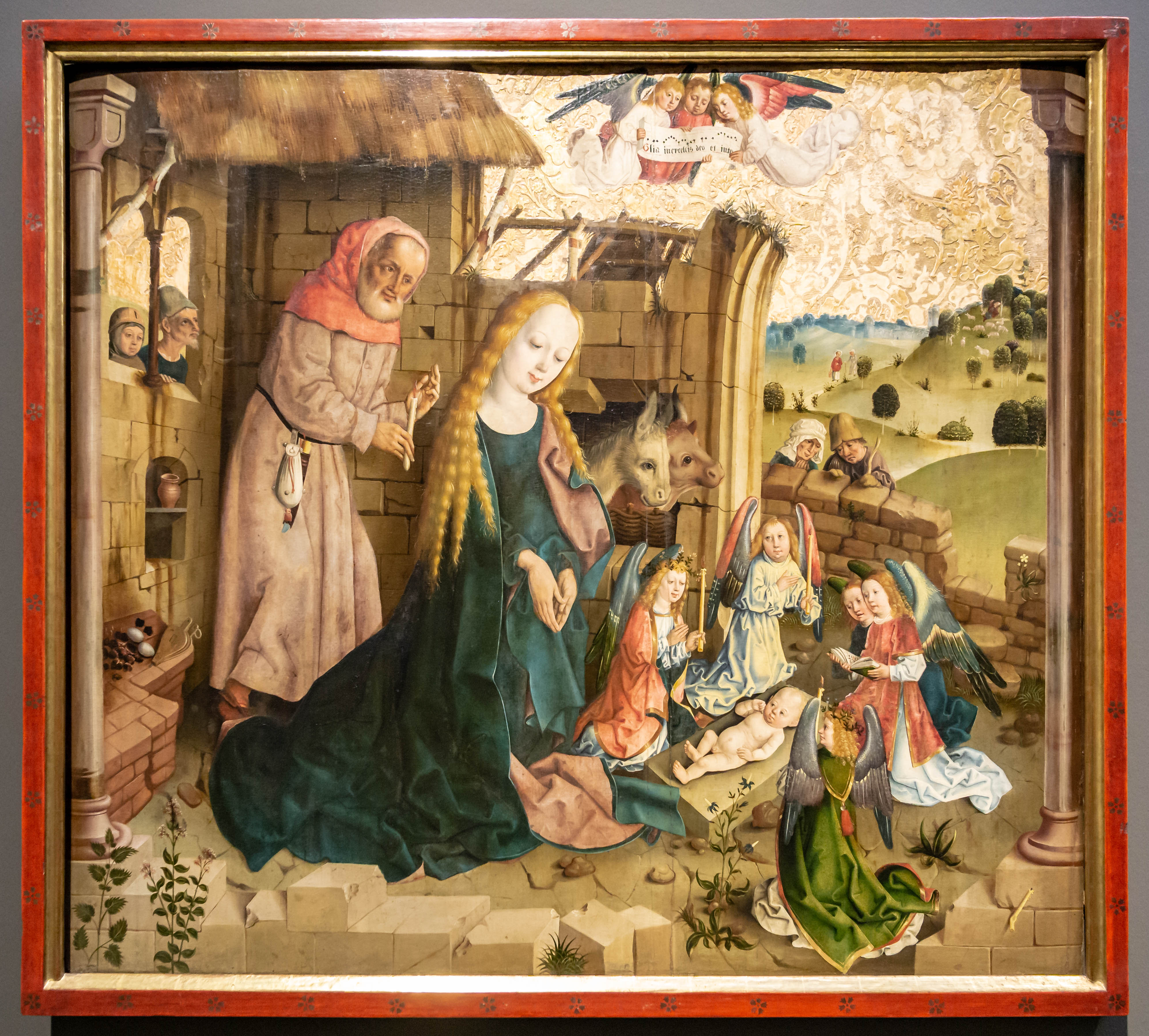 Rohrdorf Altar - The Nativity (Panel of the left interior wing)